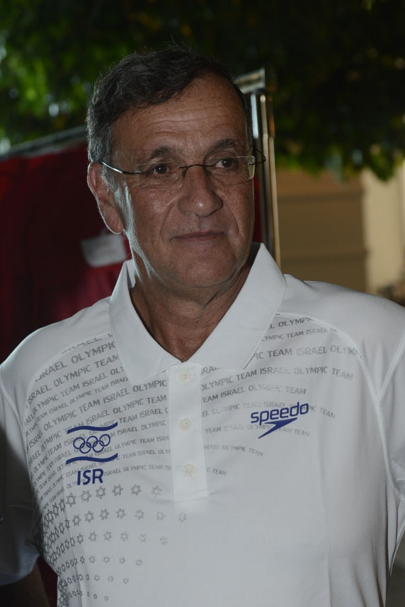 Ephraim Zinger, 2012